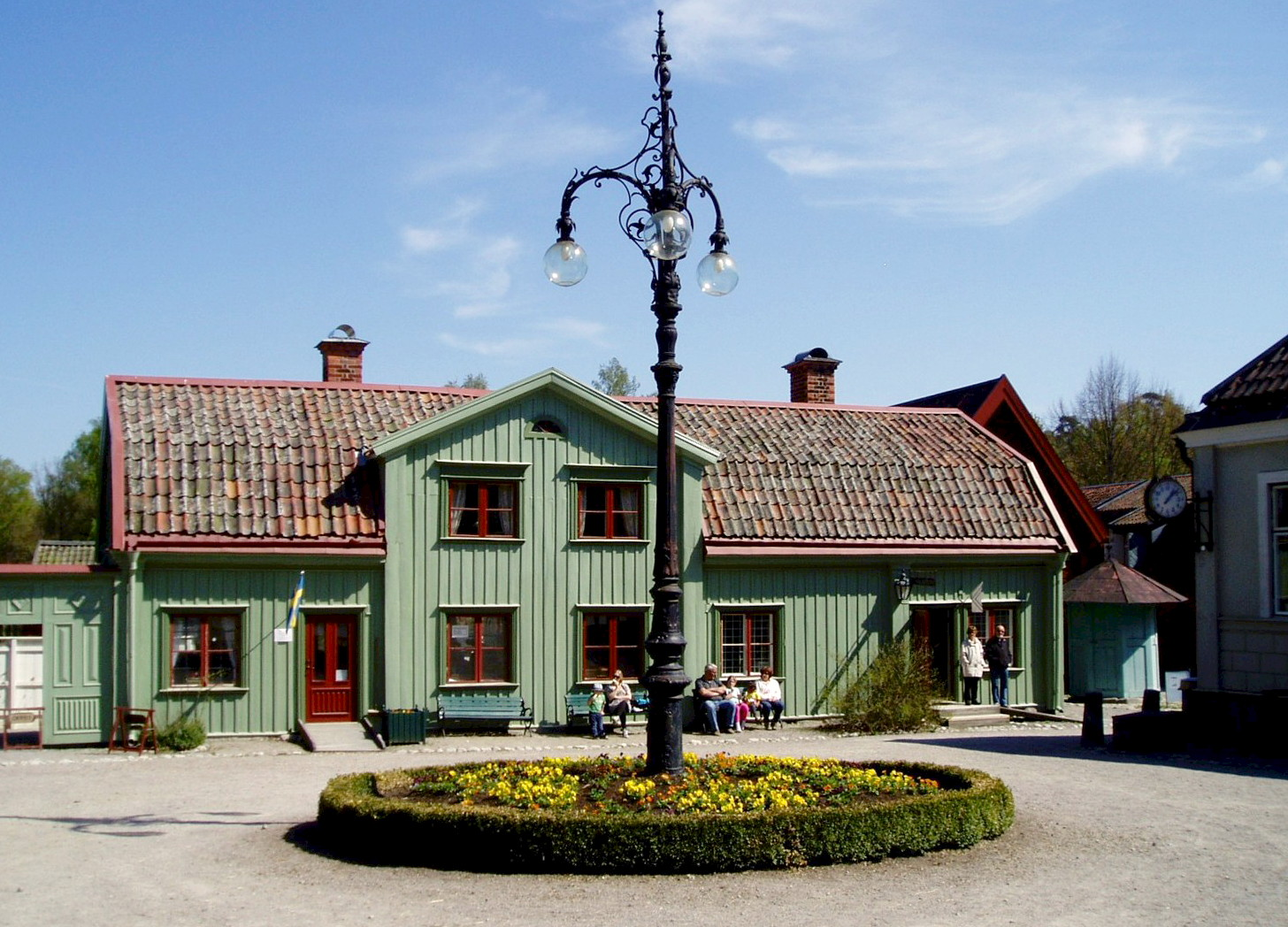 Open-air museum in Västerås, Sweden